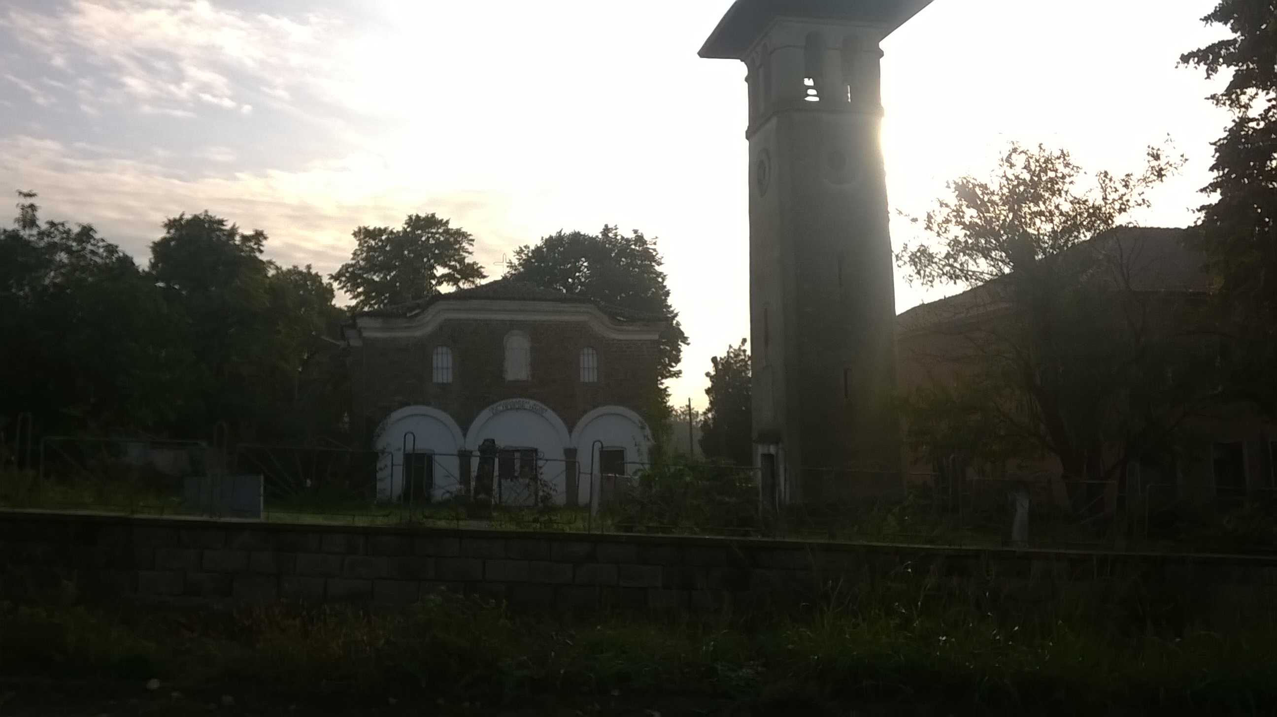 Photo taken 2015